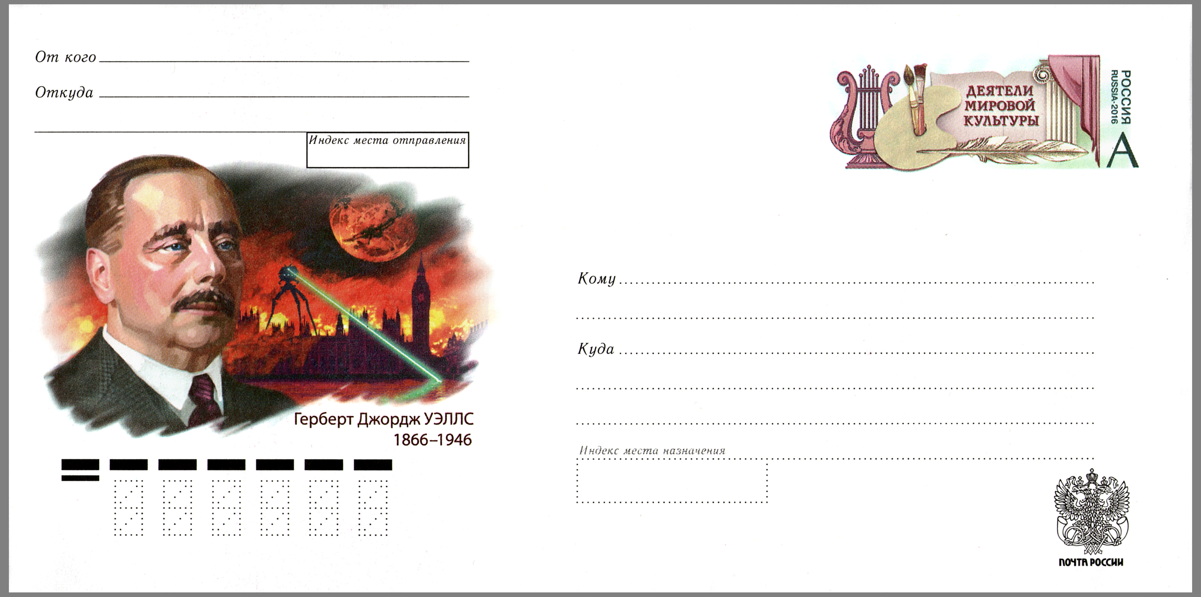 Figures of the World Culture (an ongoing series of postal stationery envelopes). The 150th birth anniversary of Herbert George Wells (1866—1946), an English writer. The illustrated postal stationery envelope with commemorative stamp, Russia, 27 September 2016. PTC Marka Catalogue No. 286/кор-16. Envelope paper VBM (ВБМ) with watermarks “ПОЧТА РОССИИ”. Offset printing. Size of the envelope: 110×220 mm. Print run: 1,000,000. The non-denominated stamp of the ongoing series with symbols of arts (“Letter A”, for domestic letters, weight 20 g or less). The illustration: the portrait of H. G. Wells against the illustration for The War of the Worlds.